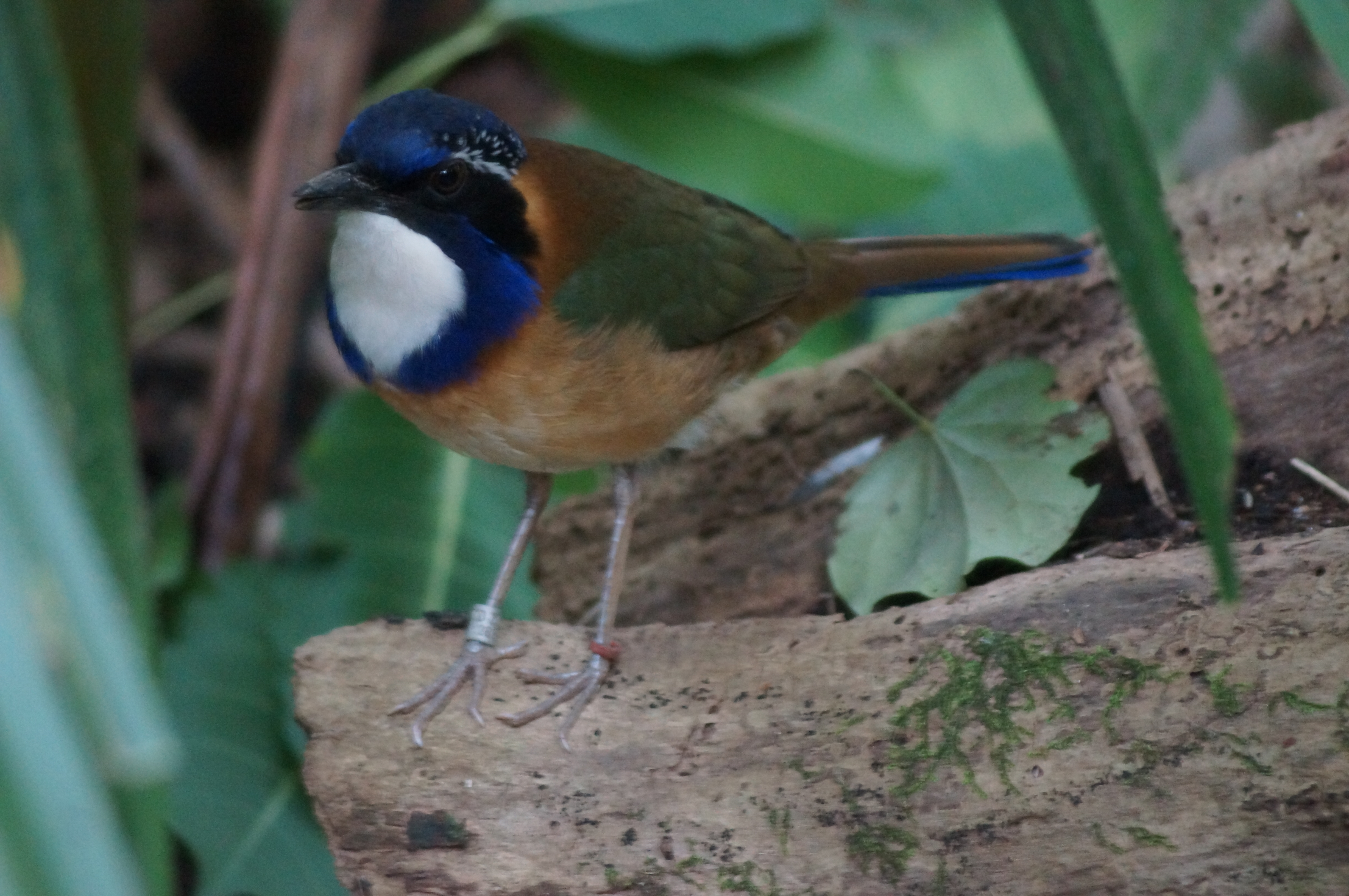 Pitta-like Ground Roller